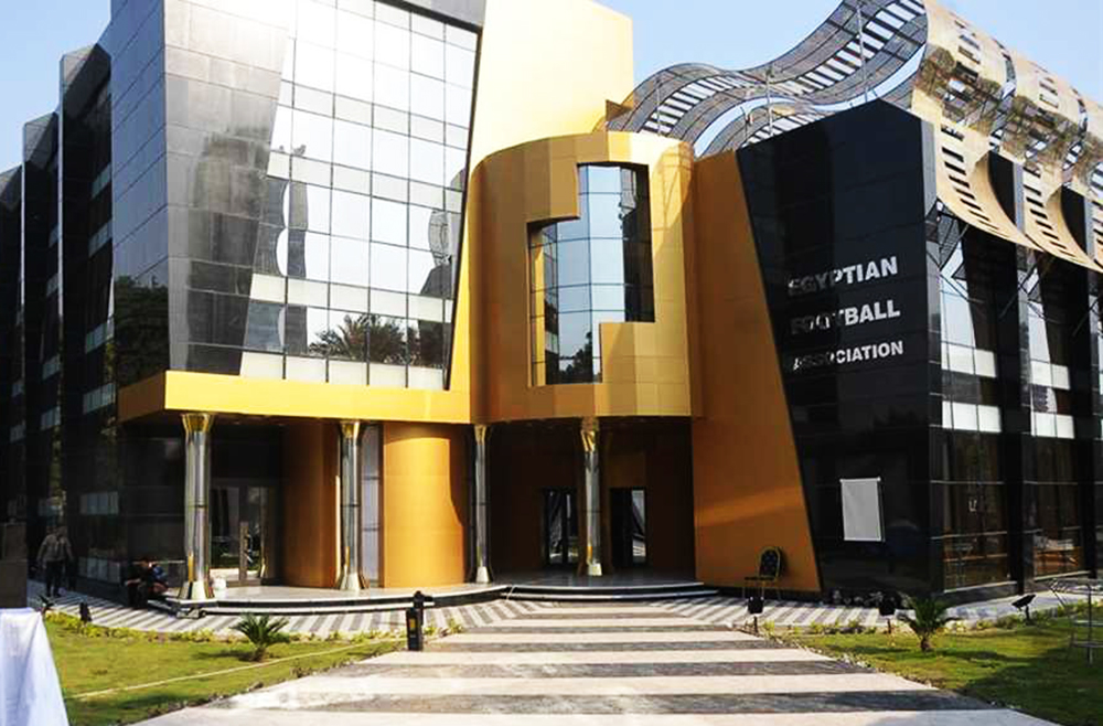 Egyptian Football Association headquarter